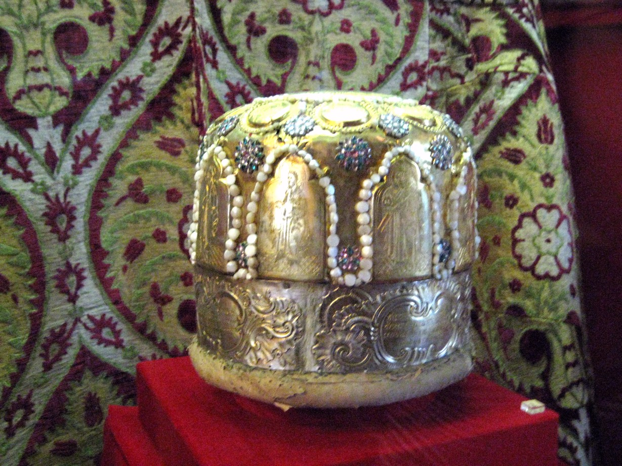 Mitra, moscow historical museum